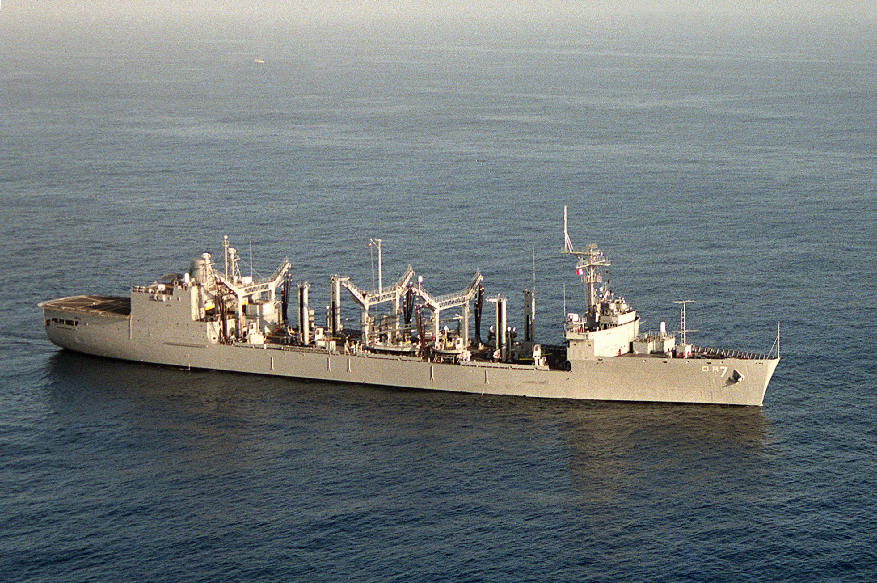 A starboard bow view of the replenishment oiler USS ROANOKE (AOR-7) underway off the coast of Guantanamo Bay, Cuba.